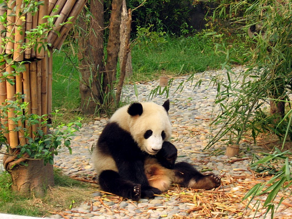 Giant Panda (Ailuropoda melanoleuca "black-and-white cat-foot") at Chengdu's Giant Panda Breeding Research Base.